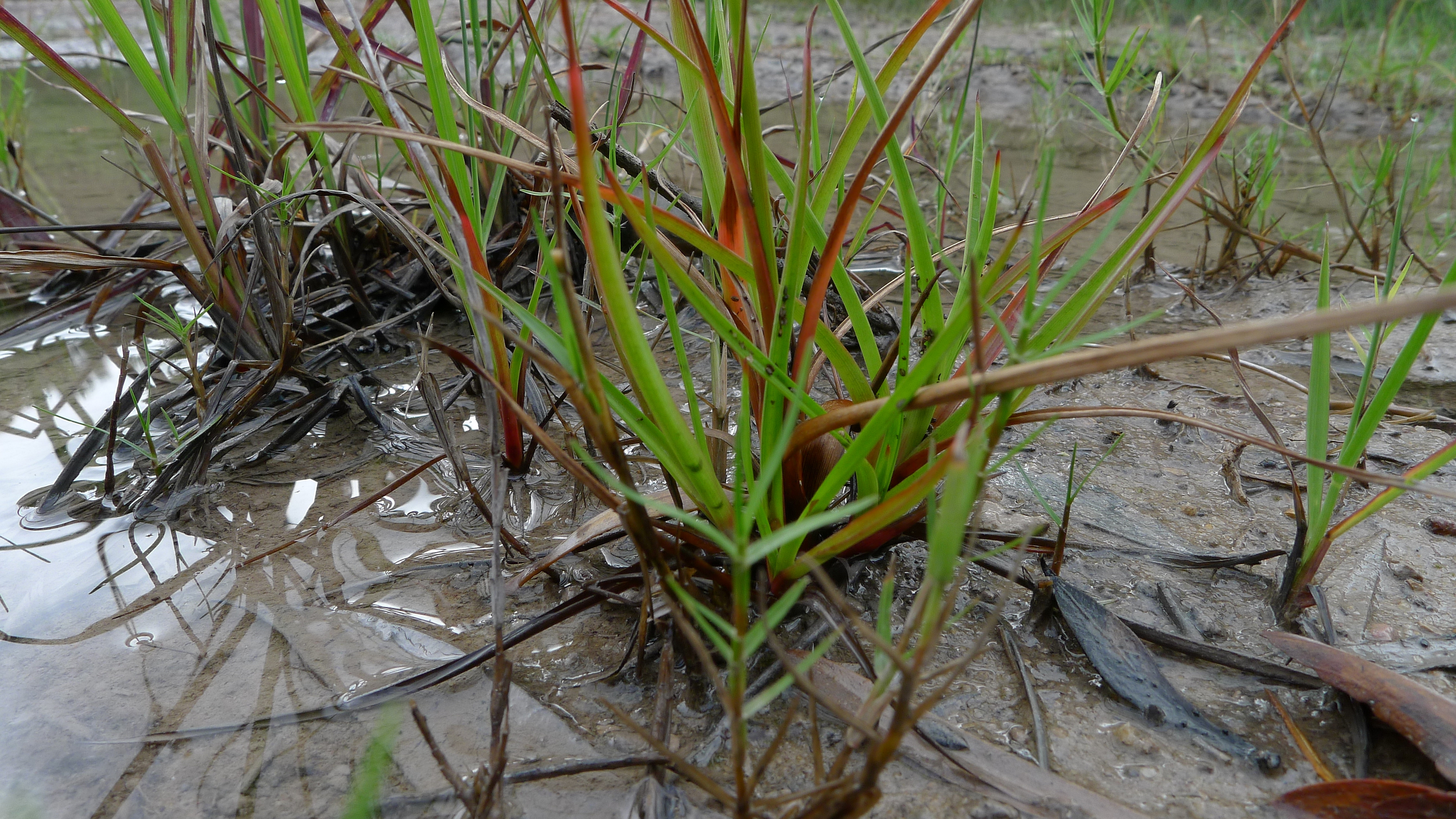 Probably Juncus planifolius. Leaves are basal, broad and thin. Royal National Park, NSW Australia, January 2012.